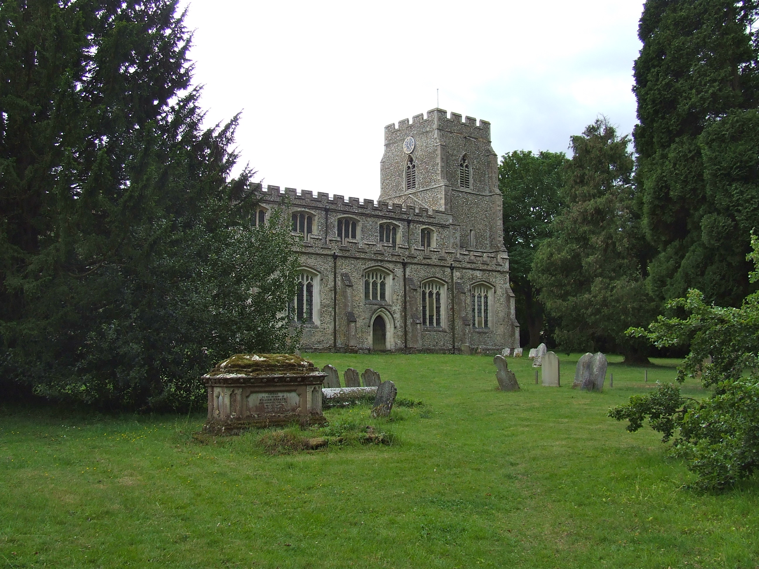 St Mary & St Clement Church in Clavering, Essex